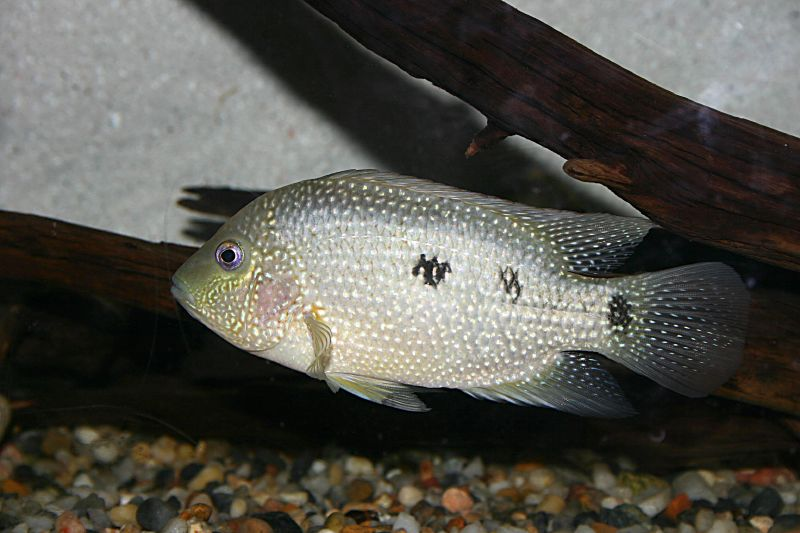 Herichthys cyanoguttatum (Rio Grande cichlid, Texas cichild).